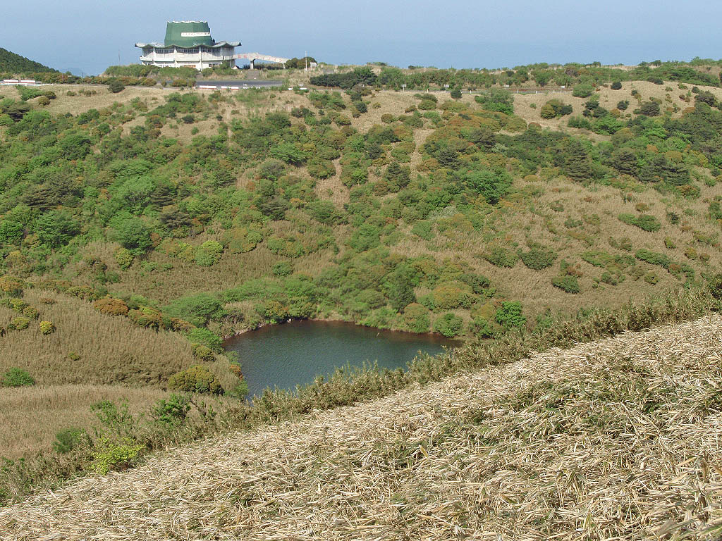 A site of Izu Skyline's Kurotake Drive-in as seen from the WSW in Shizuoka Prefecture, Japan.